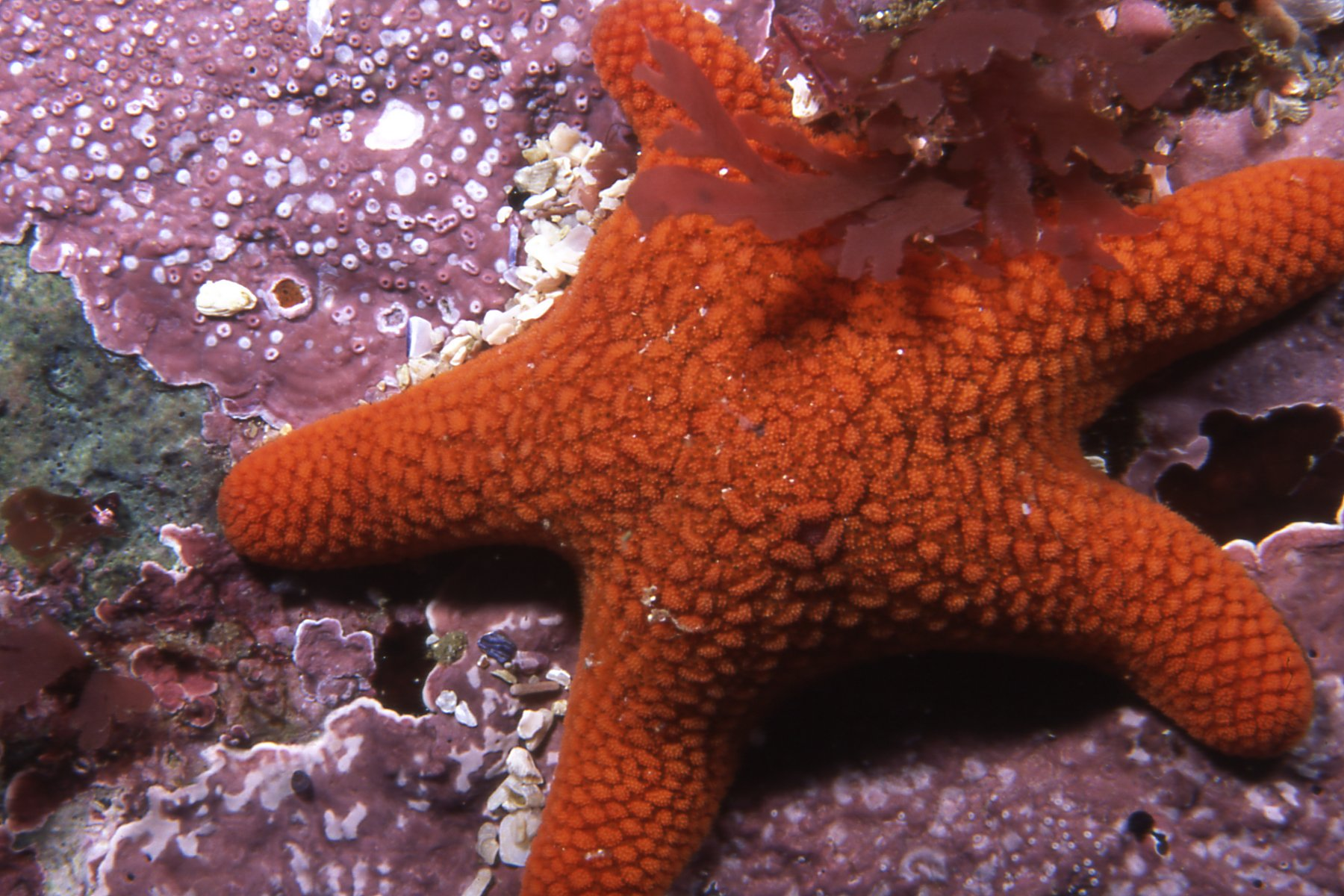 a photograph of the red starfish Callopatiria granifera taken in False Bay Cape Town in about 20m of water using a Nikonos V camera